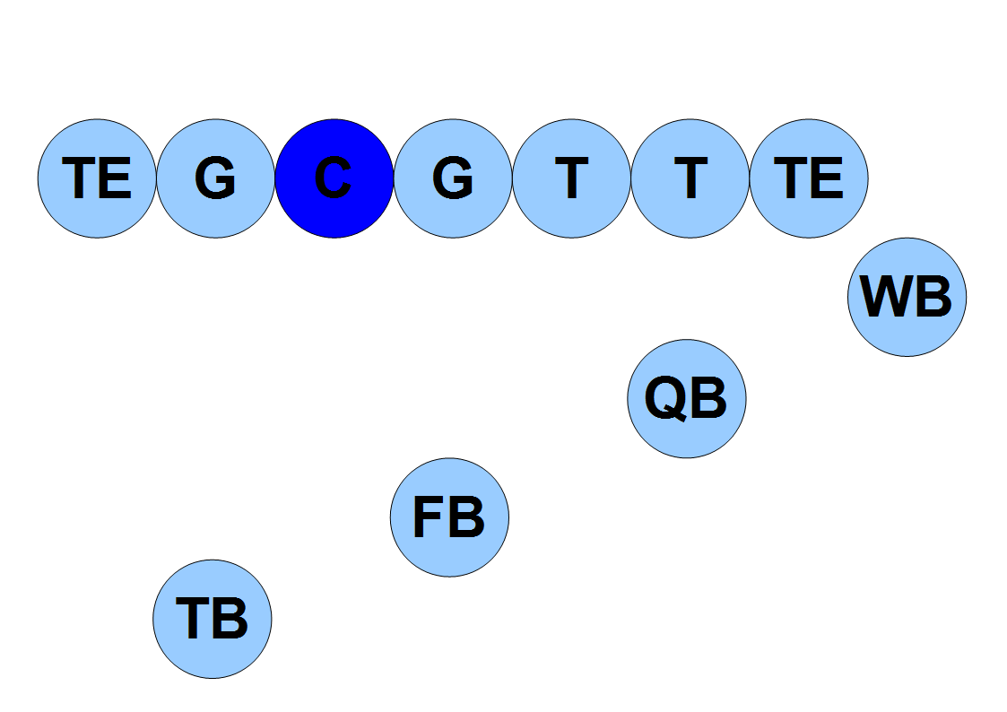 Single-wing formation in American Football